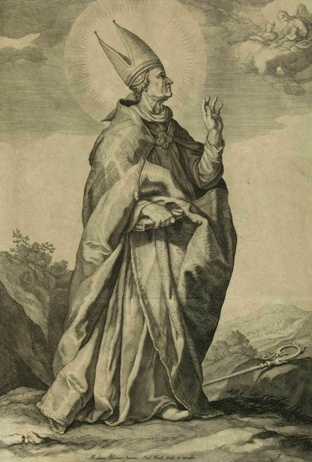 Saint Radboud of Utrecht